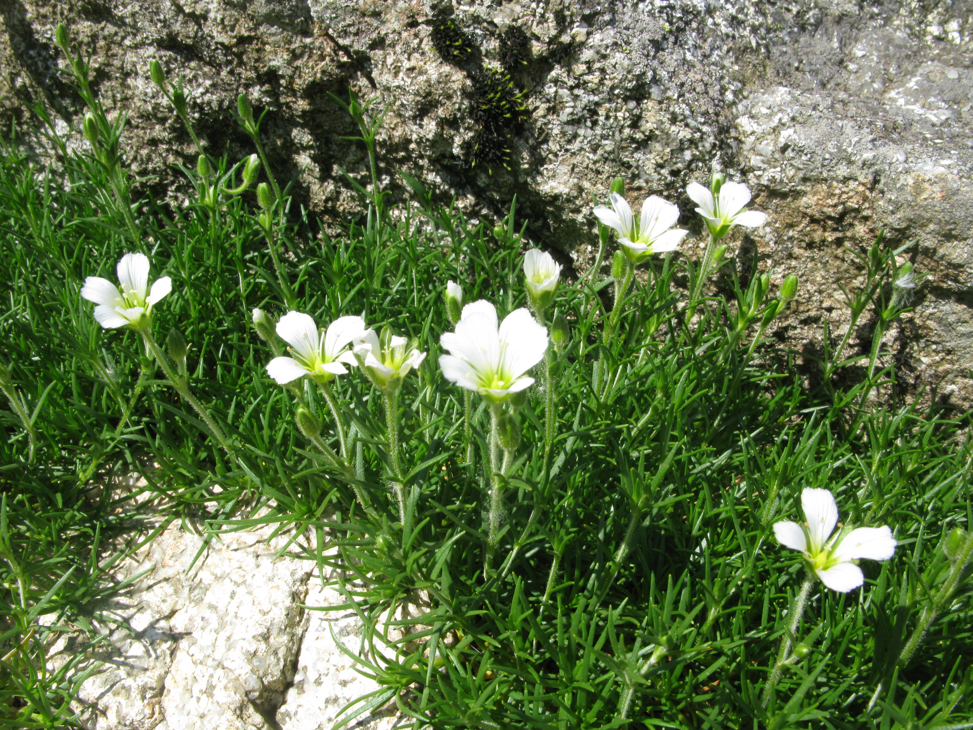 Minuartia arctica var. hondoensis, Mt. Iide, Fukushima pref., Japan